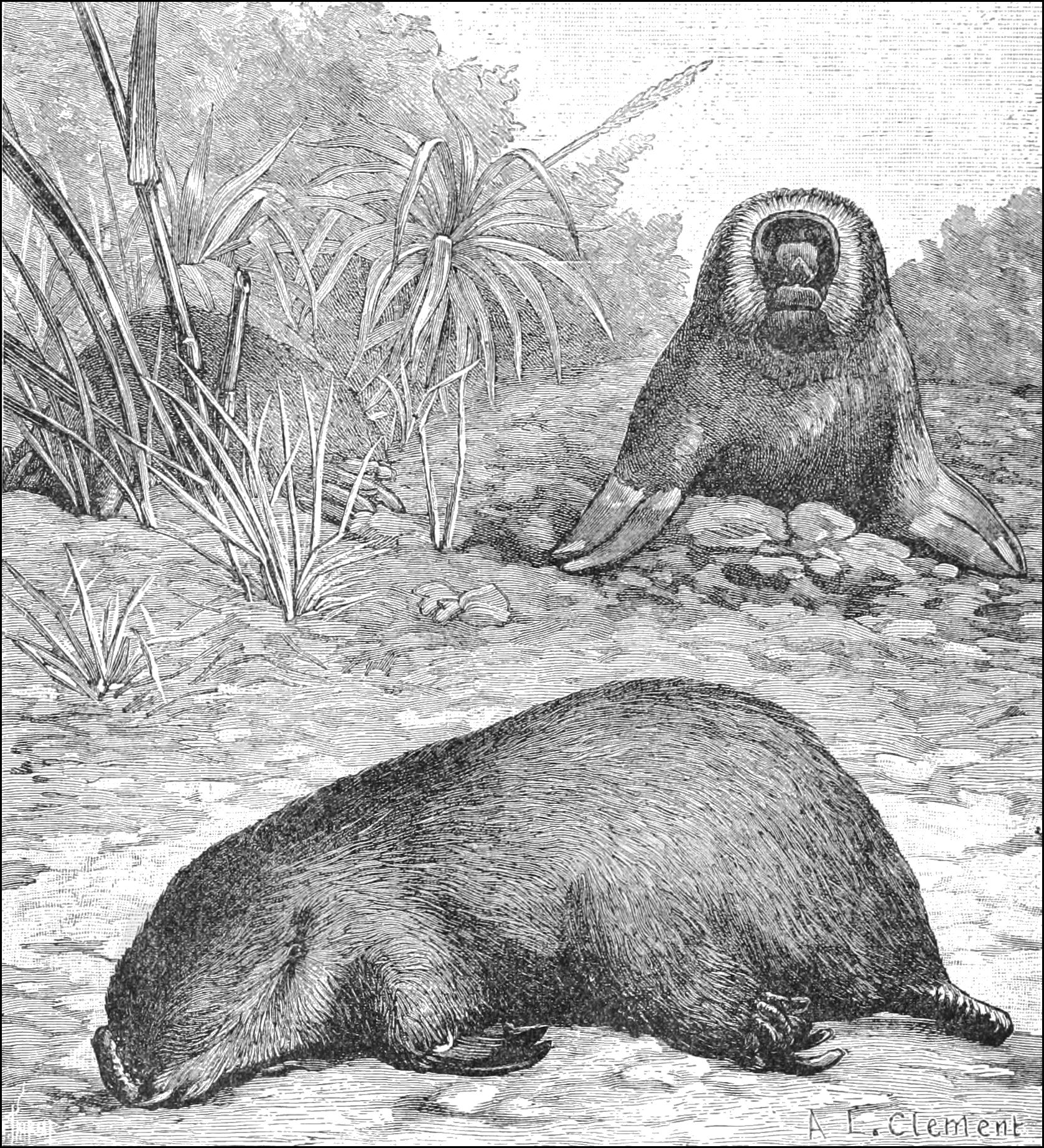 The new mammal notoryctes typhlops